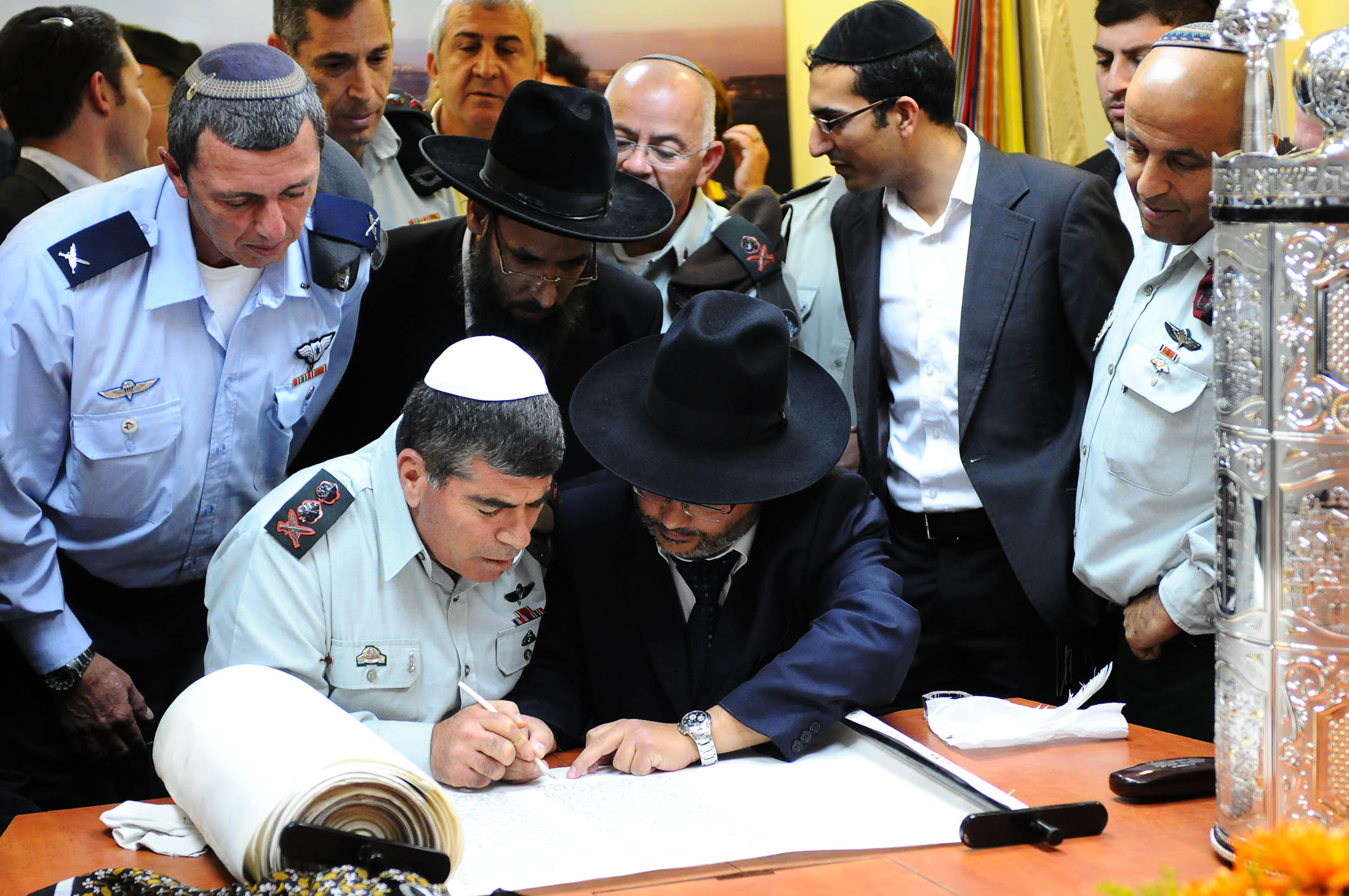 December 28, 2010. The Torah Scroll dedicated to the welfare of all missing or kidnapped IDF soldiers was introduced into the Military Synagogue at the Rabin Base in Tel-Aviv on Tuesday. The ceremony was held in the presence of the Chief of the General Staff, Lt. Gen. Gabi Ashkenazi, senior IDF officers, and Rabbi Yaakov Israel Ifergan. Family members of missing or kidnapped IDF soldiers were also present during the ceremony. Pictured: Noam Shalit, the father of Gilad Shalit - an IDF soldier who had been kidnapped in 2006 and is still held hostage in the Gaza Strip - walks with the Torah Scroll into the Military Synagogue. Pictured: Lt. Gen. Ashkenazi, the Chief Military Rabbi, Brig. Gen. Rafi Peretz, senior IDF officers, and Rabbi Yaakov Israel Ifergan, writing in the last letters of the Torah Scroll. ספר תורה לשלומם של חיילי צה"ל החטופים והנעדרים הוכנס היום (ג') לבית הכנסת במחנה רבין בתל אביב במעמד הרמטכ"ל, רב אלוף גבי אשכנזי ואלופי צה"ל ובהשתתפות כבוד הרב יעקב ישראל איפרגאן (הרנטגן). בטקס המרגש נכחו נציגי משפחות חיילי צה"ל השבויים והנעדרים. בתמונה: רב אלוף אשכנזי, אלופי המטכ"ל והרב איפרגאן במעמד כתיבת האותיות האחרונות בספר התורה.